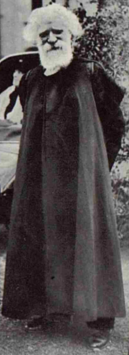 Anonymous photograph of Josiah Oldfield at Oxford in 1938.